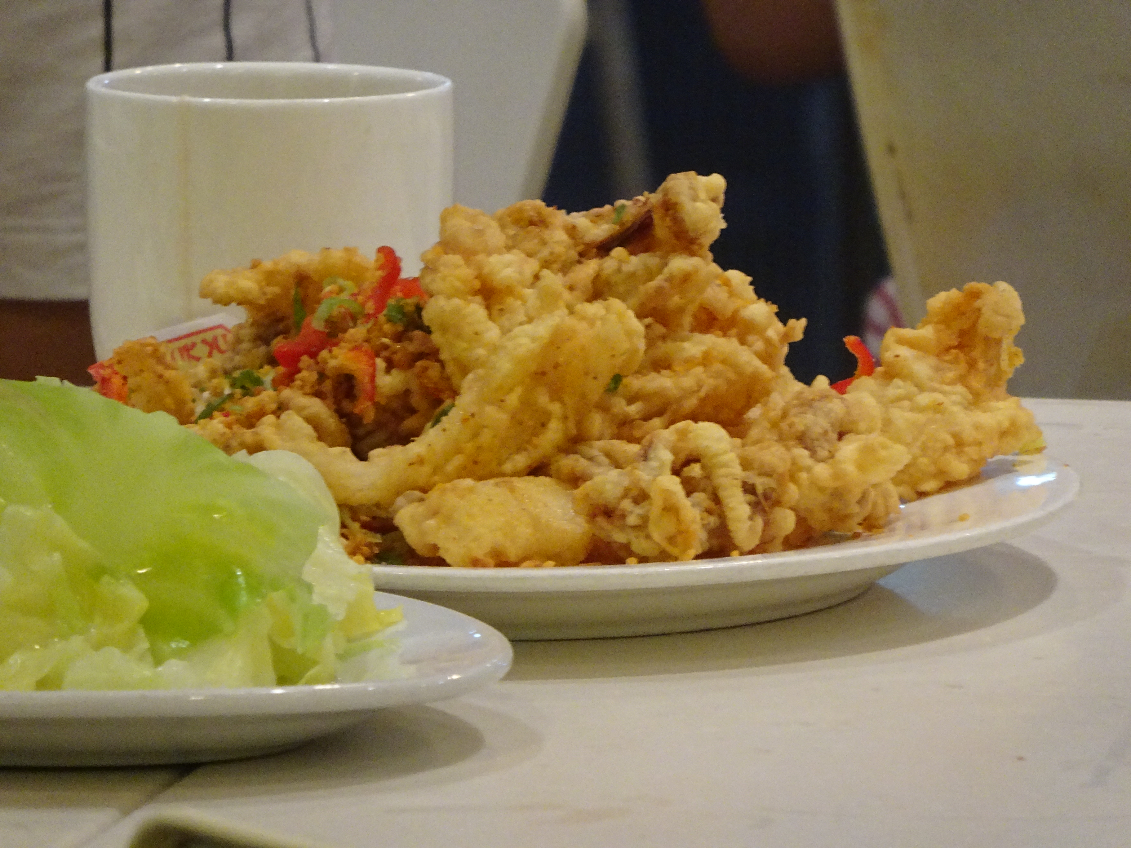 西環 鴻興茶餐廳, Hung Hing Restaurant, Pokfulam Road, Sai Ying Pun, Hong Kong